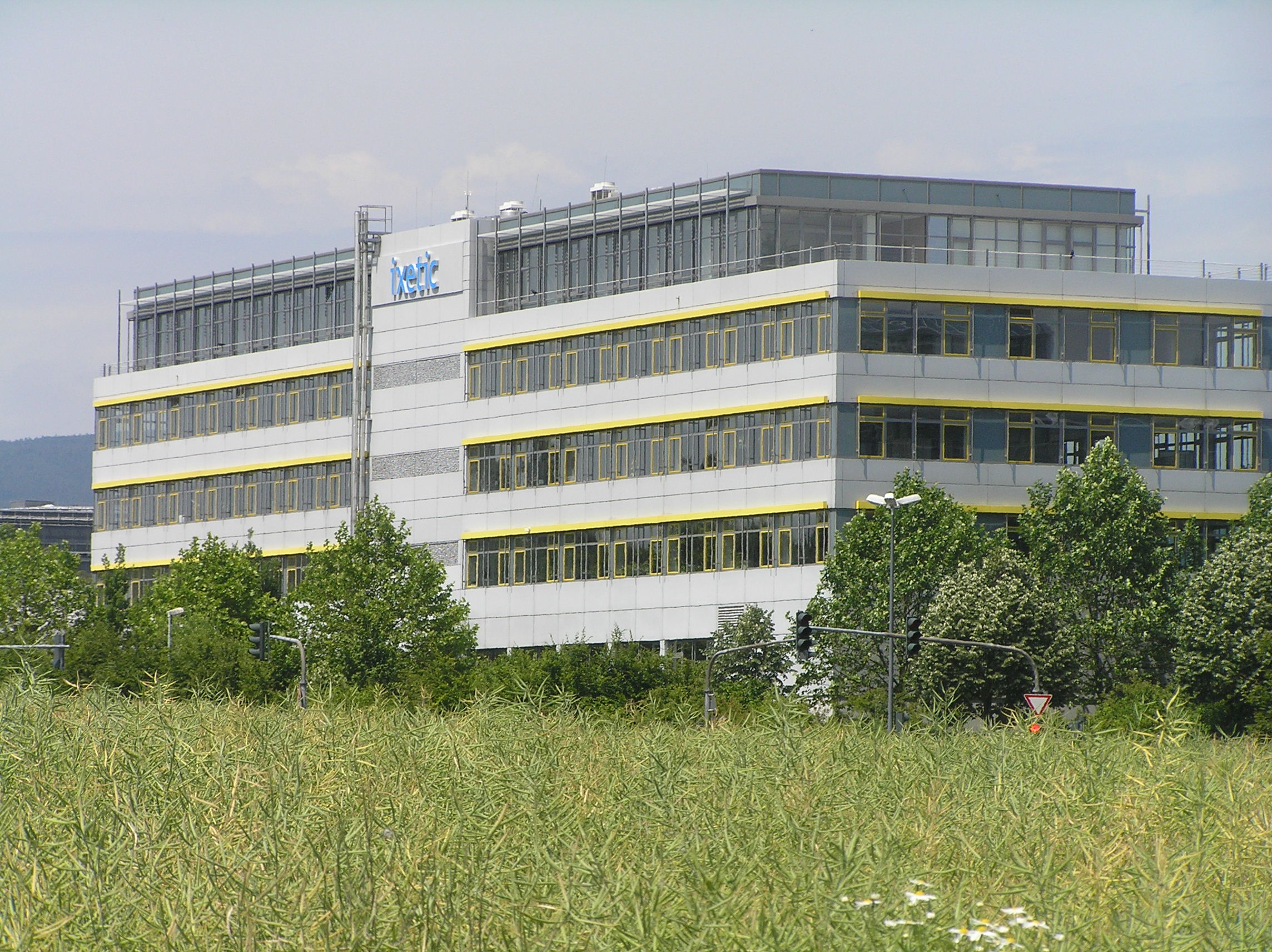 Headquarter of ixetic GmbH in Bad Homburg vor der Höhe, Hesse, Germany